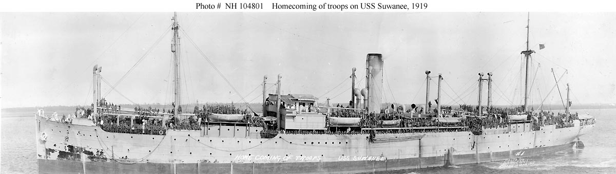 United States Navy troop transport USS Suwanee (ID-1320) arriving in the southern United States (possibly at :en:Charleston, South Carolina}Charleston| , South Carolina) carrying American troops returning from Europe after World War I